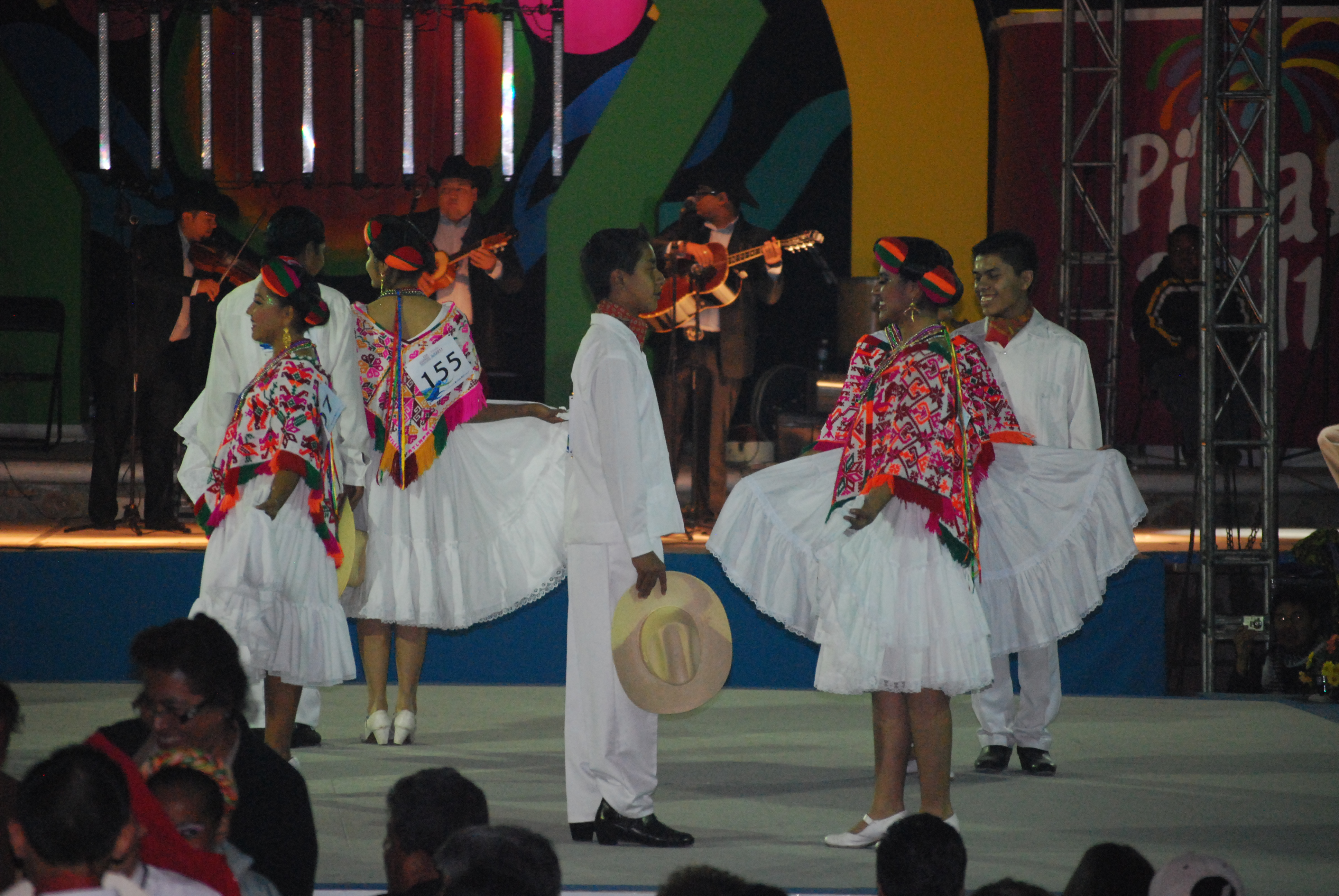 Dancers at the 2011 Concurso Nacional de Baile Huapango in Pinal de Amoles, Querétaro, Mexico